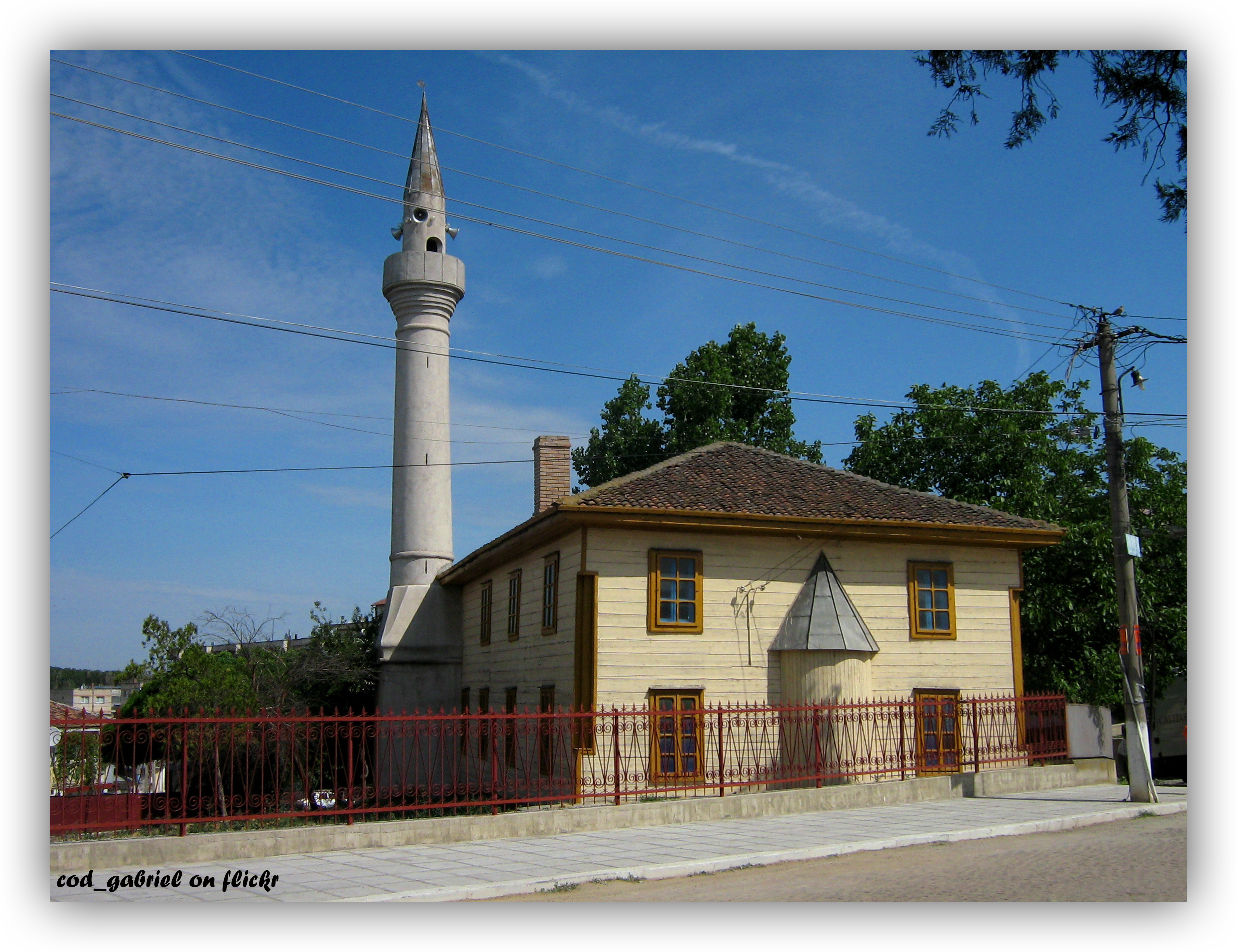 Mosque in Măcin (Turkish: Maçin) — a town in Tulcea County, Dobrogea, Romania.